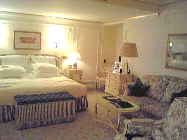 Ritz London, Deluxe Room